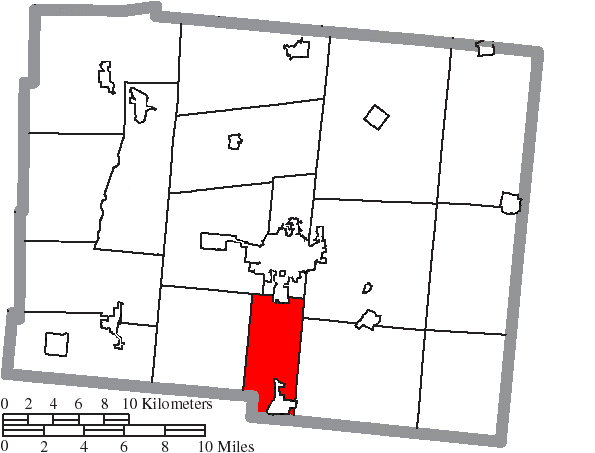 Map of the municipal and township boundaries of Logan County, Ohio, United States, as of the 2000 census, with the location of Liberty Township highlighted. Township borders are shown only in unincorporated areas in order to differentiate incorporated and unincorporated areas more clearly.